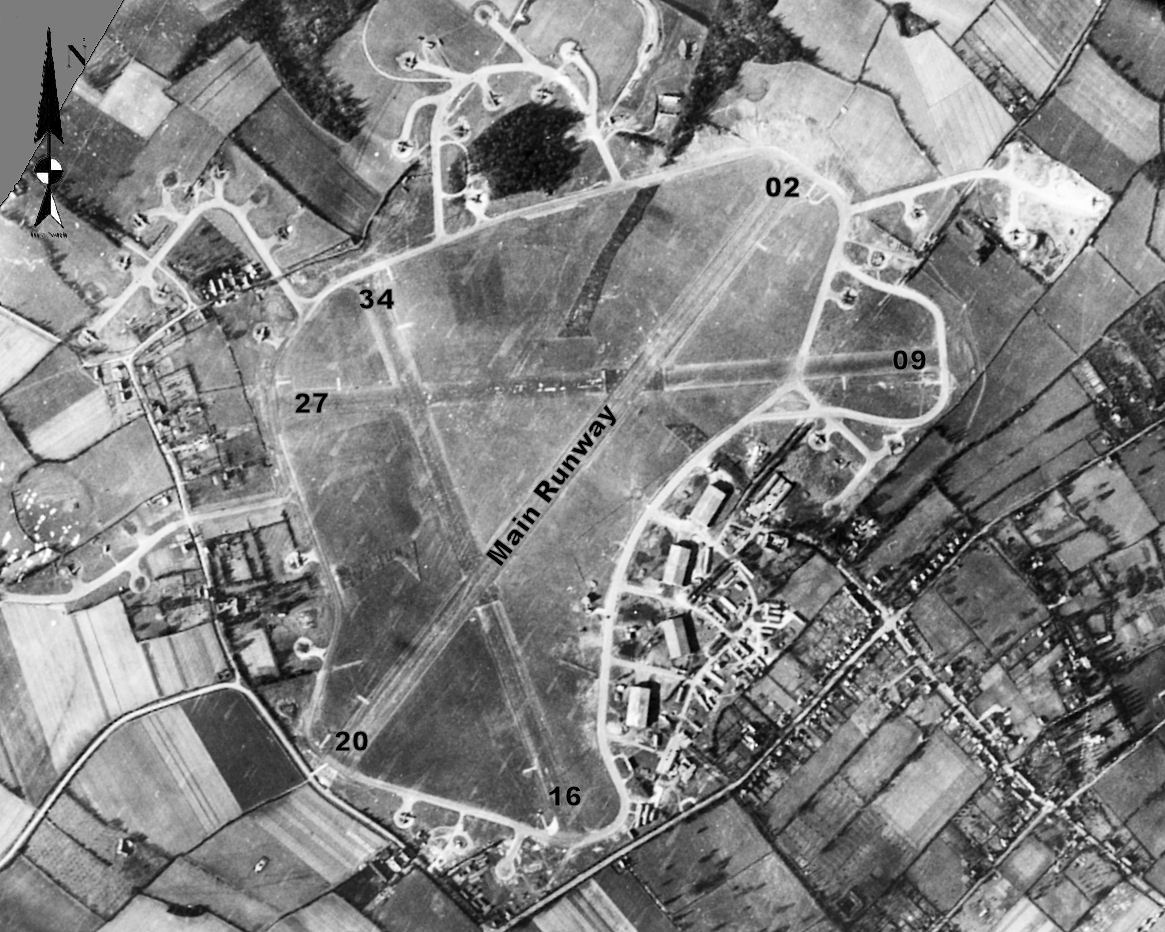 Aerial photograph of Bovingdon airfield looking north , the technical site with four T2 hangars is at the southeast of the airfield, the bomb dump is to the west, 13 March 1944. Photograph taken by 7th Photographic Reconnaissance Group, sortie number US/7PH/GP/LOC226. English Heritage (USAAF Photography). Annotation by uploading author, April 2015